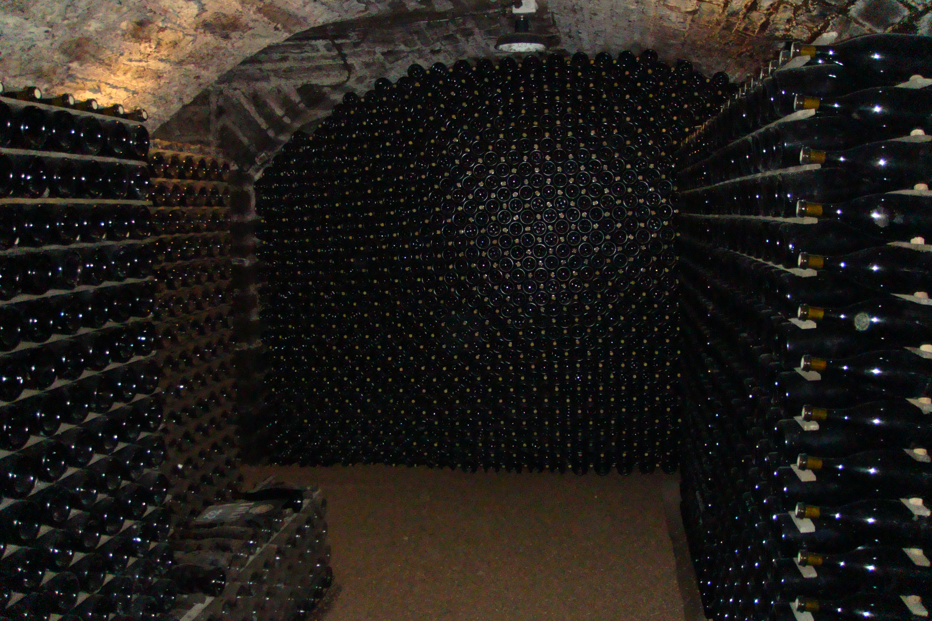 Burgundy wine aging in the bottle